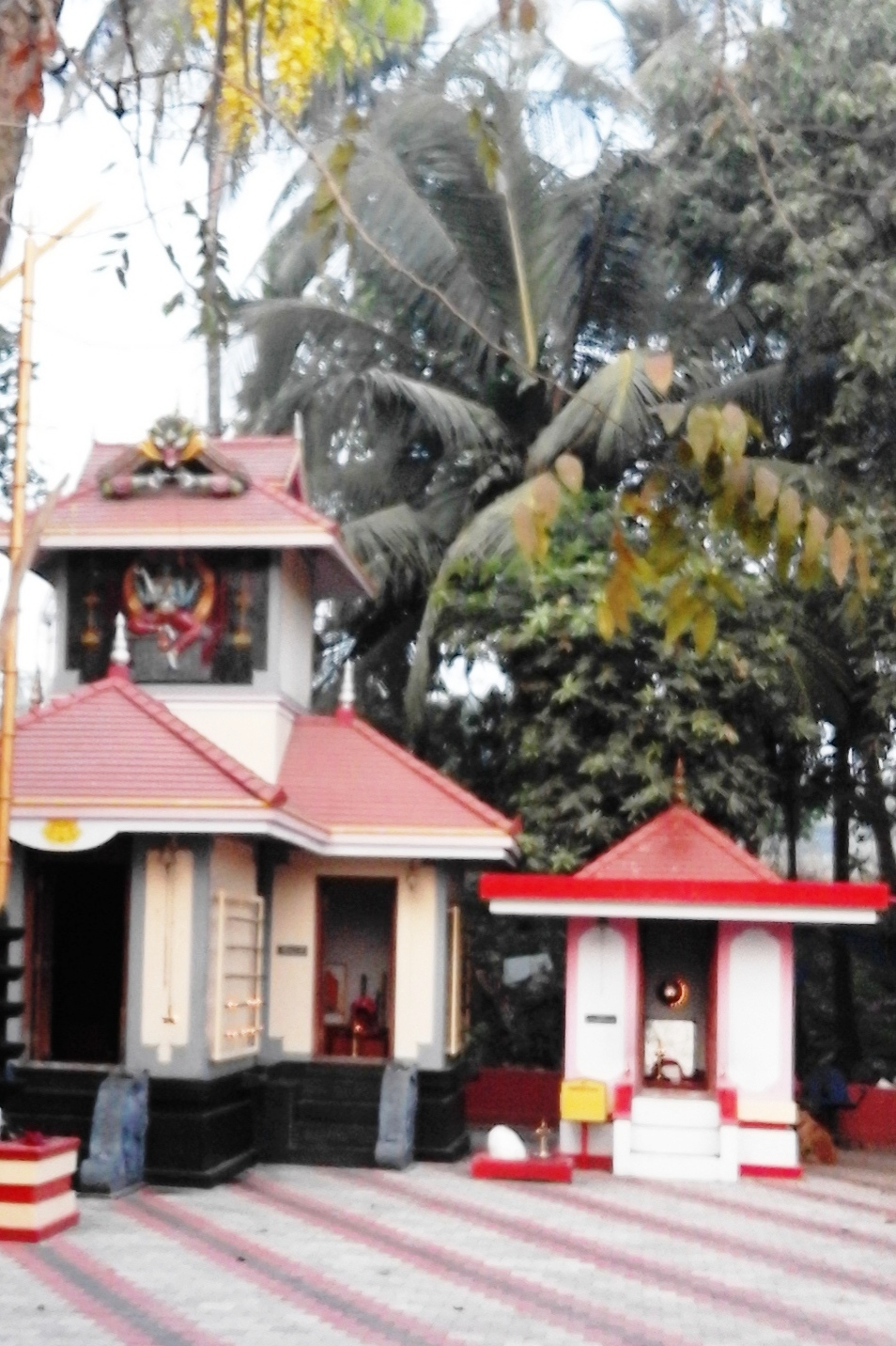 Kozhikode District, Kerala province, India.